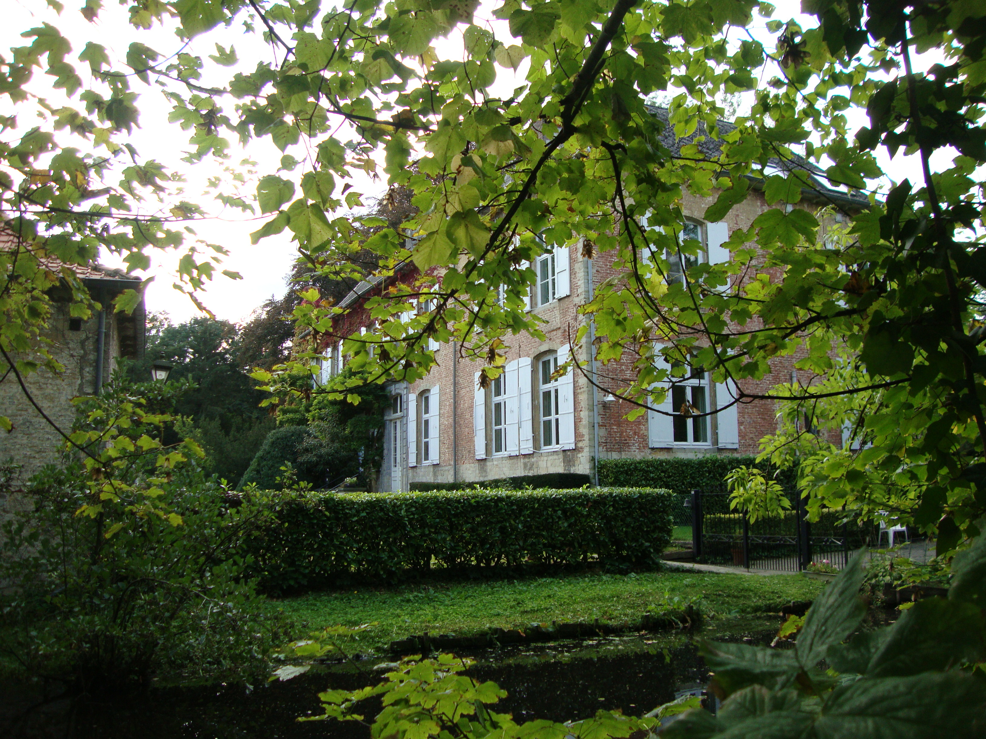 The "Hof ter Bruggen" is an important ensemble of castle, chapel and farm. Erps-Kwerps